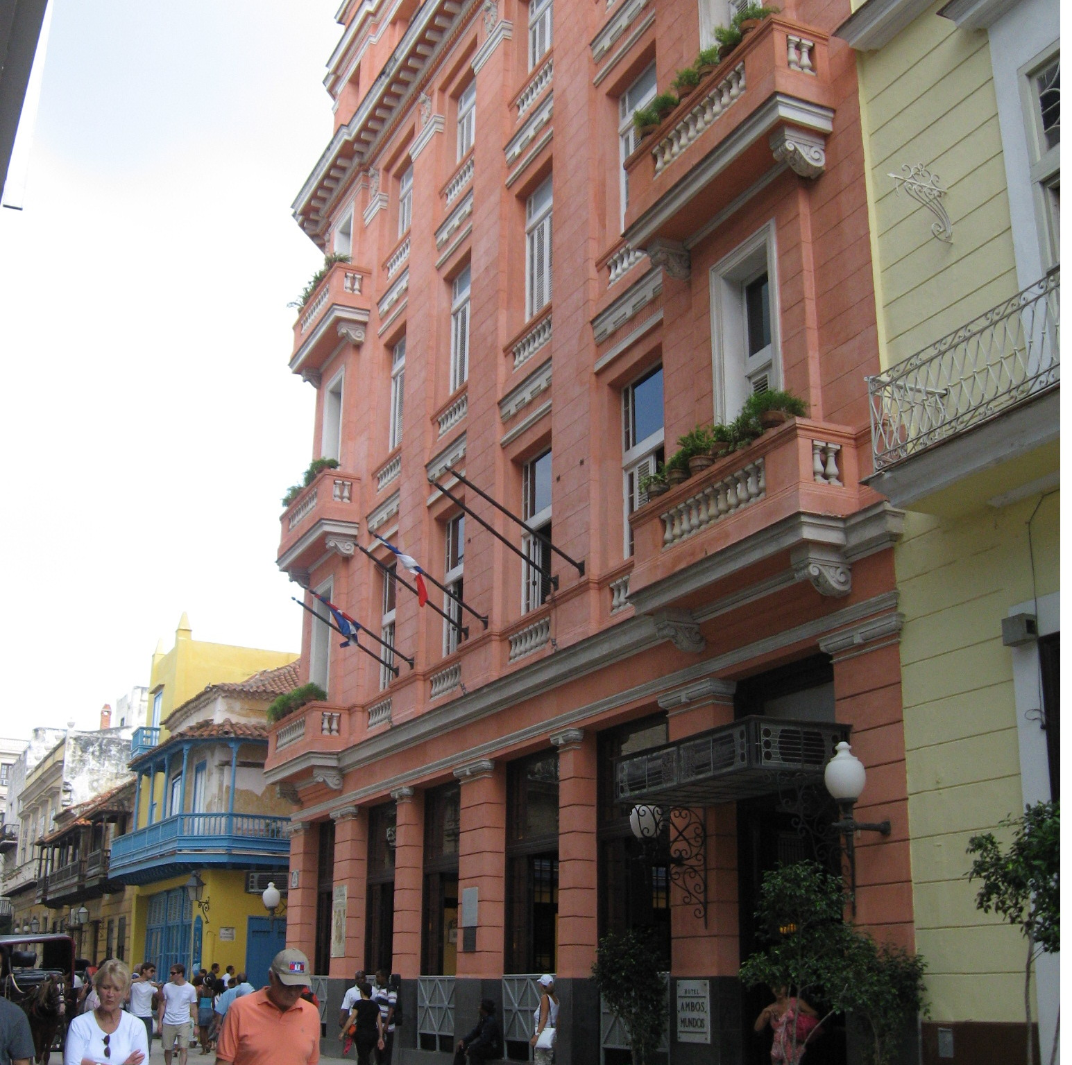 Hotel Ambos-Mundos [